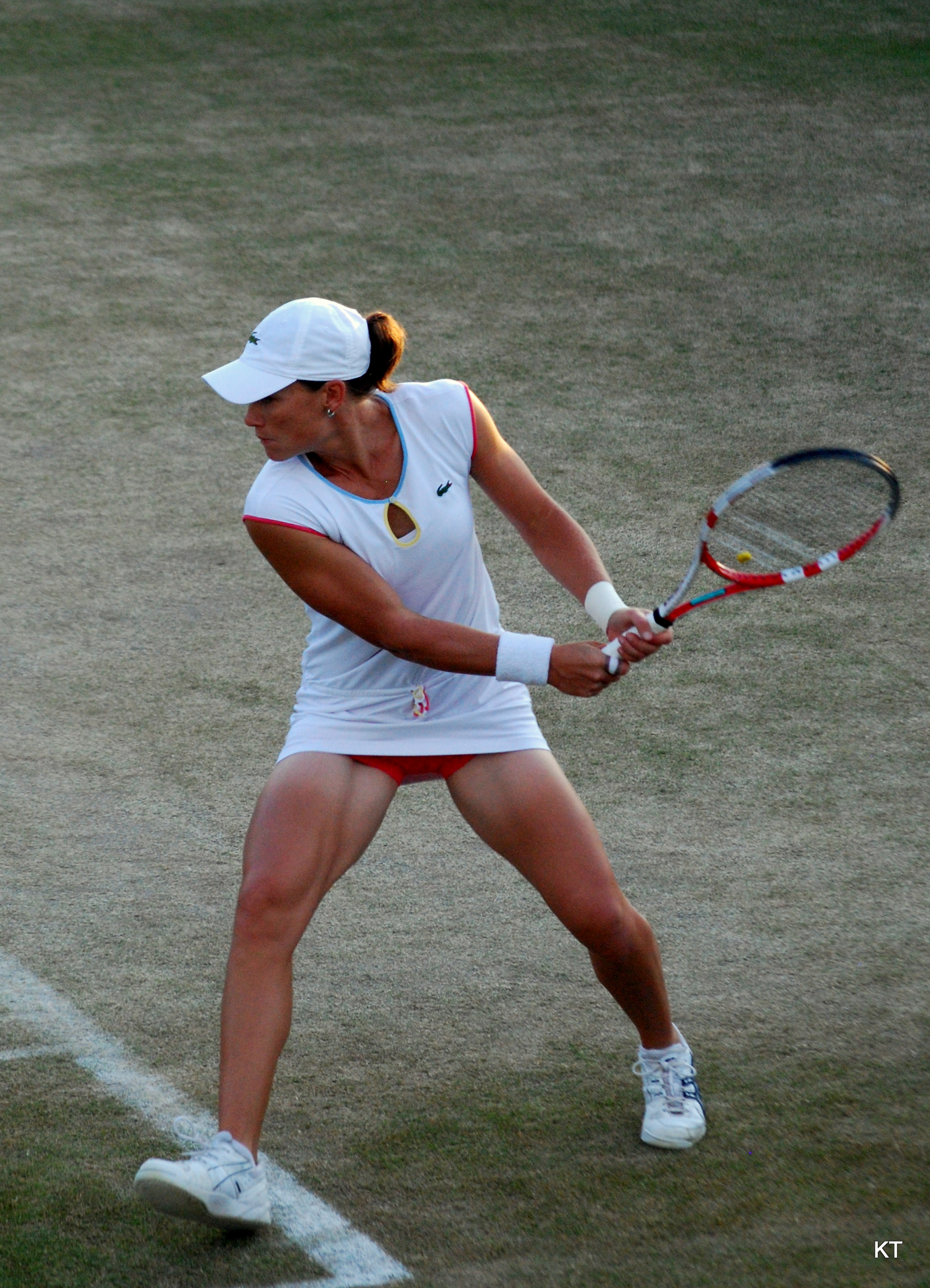 Sam Stosur during her doubles semi-final with Sabine Lisicki against Marina Erakovic & Tamarine Tanasugarn. The match had to be finished the following day, with Lisicki & Stosur winning 6-3 4-6 8-6. They then went on to play the final, in which they lost to Kveta Peschke & Katarina Srebotnik. Day 11 of Wimbledon 2011.